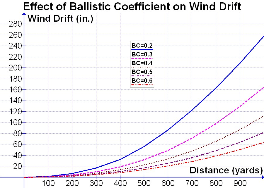 Effect of Ballistic Coefficient on Wind Drift for a 140 grain projectile with a muzzle velocity of 2950 fps. The wind was a ten mile an hour crosswind. Data was calculated using the JBM ballistic calculator Trajectory G1 BC.